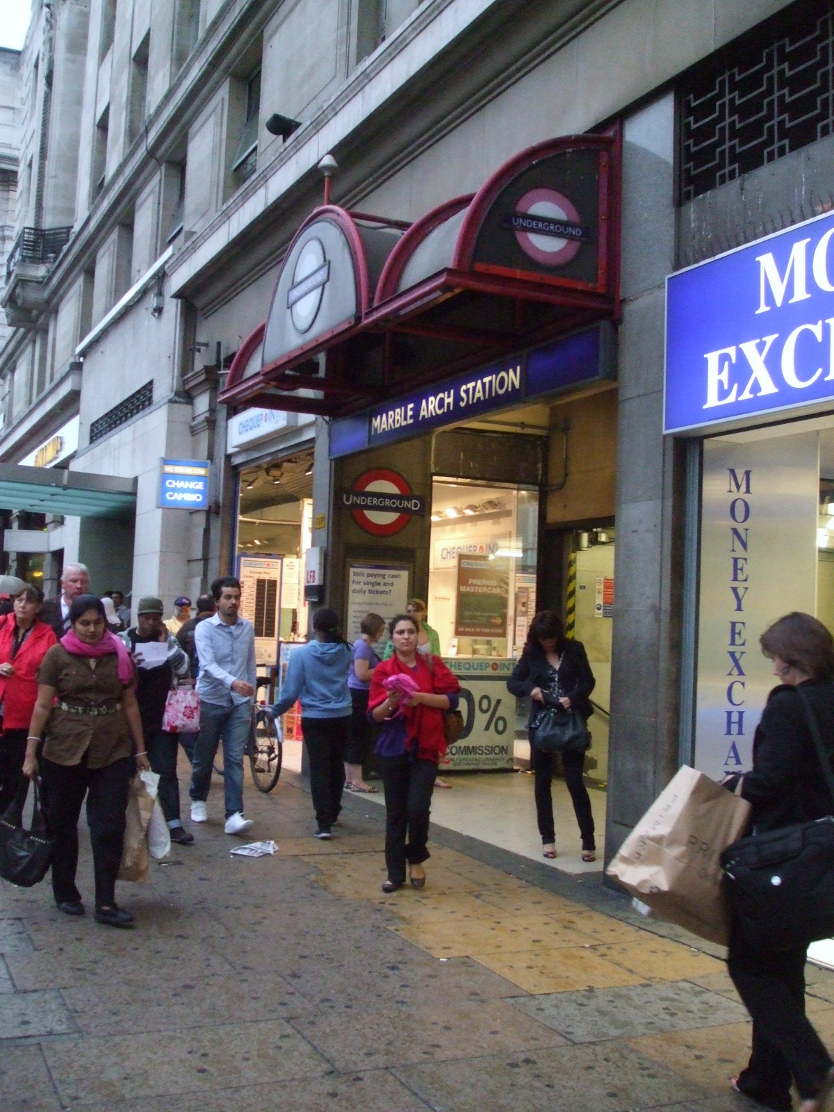 Marble Arch tube station main entrance